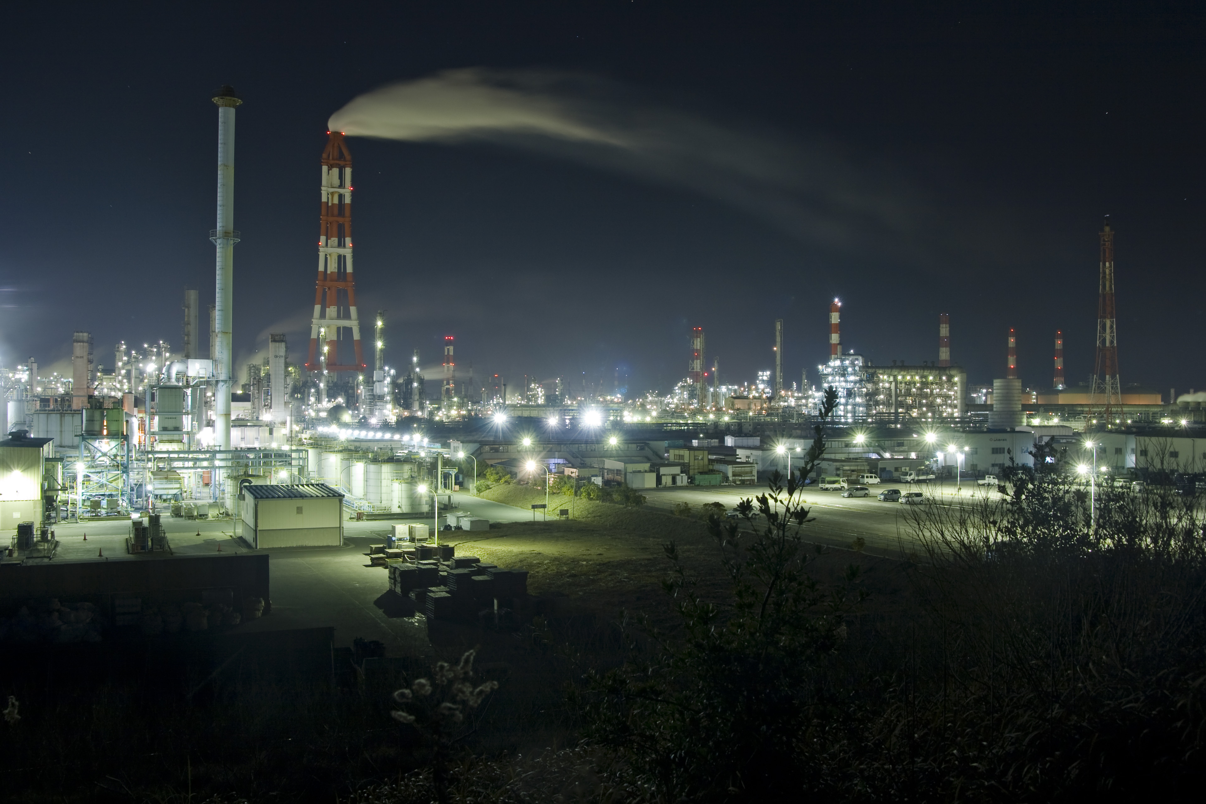 Kashima Coastal Industrial Region, Ibaraki Pref., Japan.